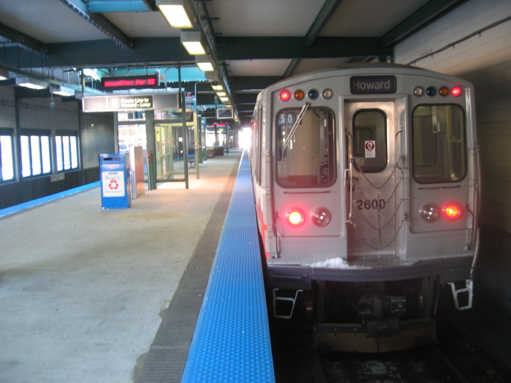 Linden Station at the northern terminus of the CTA Purple Line.